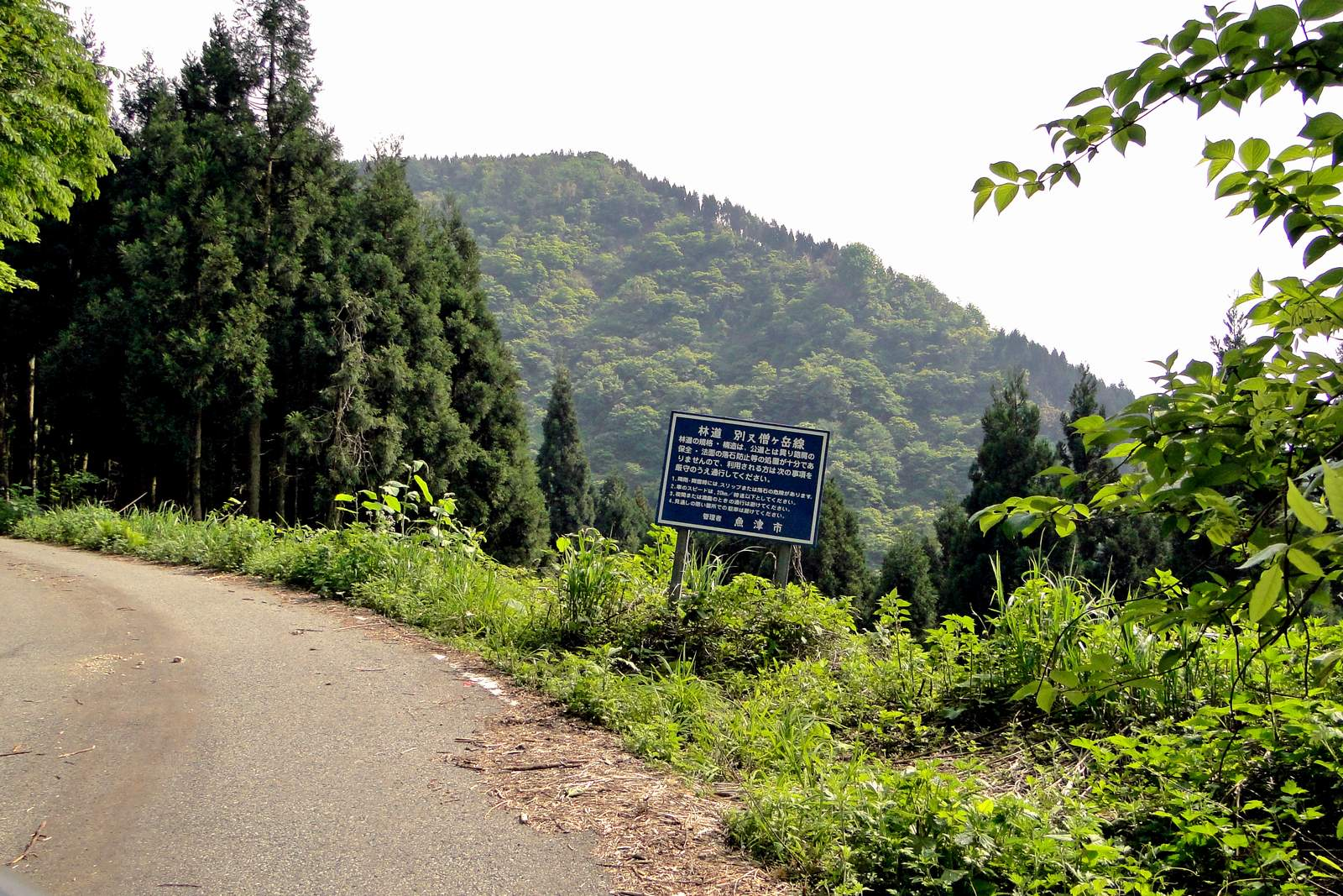 Betumata Sougadake line